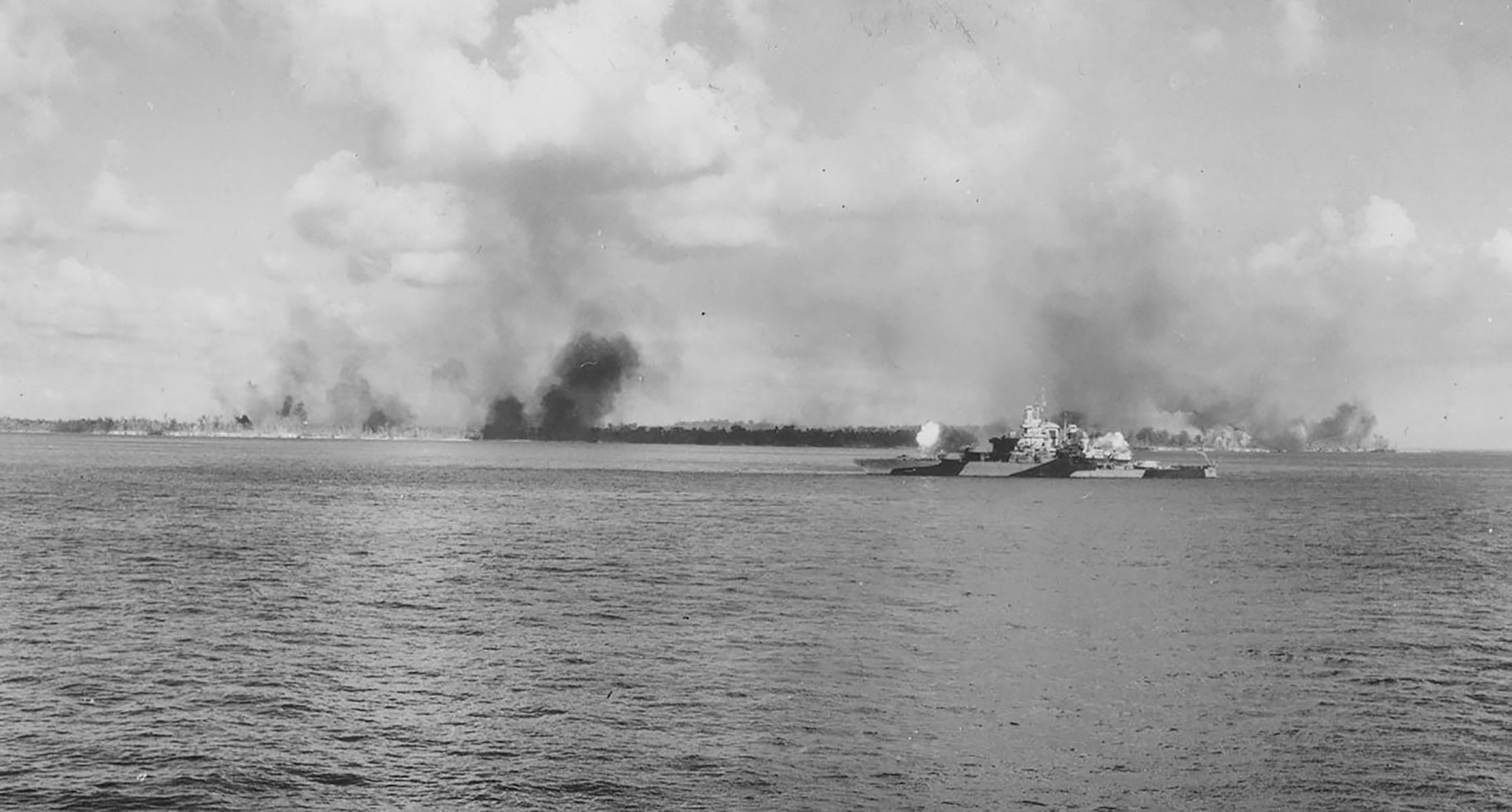 The United States battleship USS Tennessee (BB-43) bombarding Anguar during the invasion operation. USN photo # 80-G-284057 now in the collection of the US National Archives in College Park, Maryland